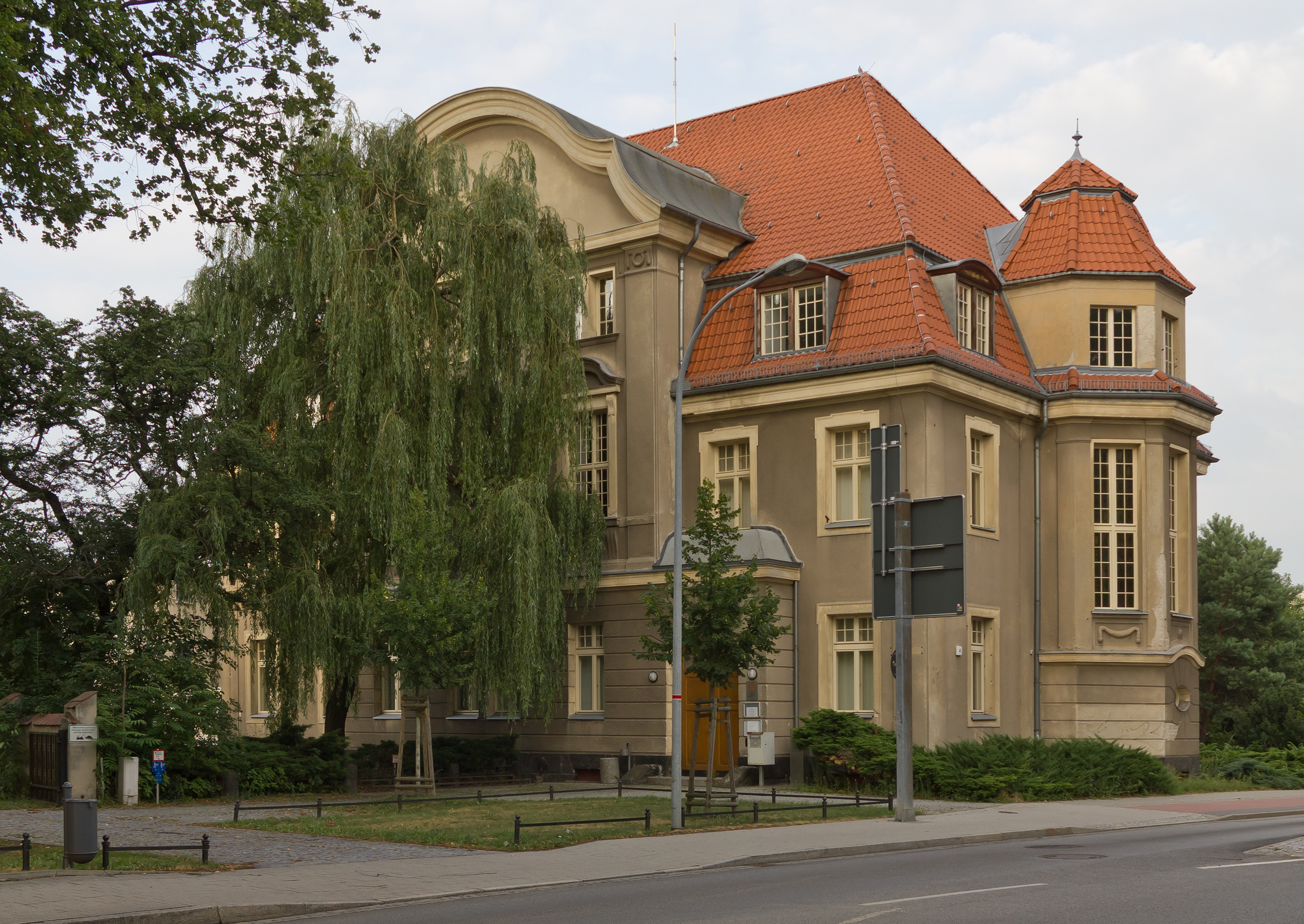 Courthouse in Königs Wusterhausen, Brandenburg, Germany